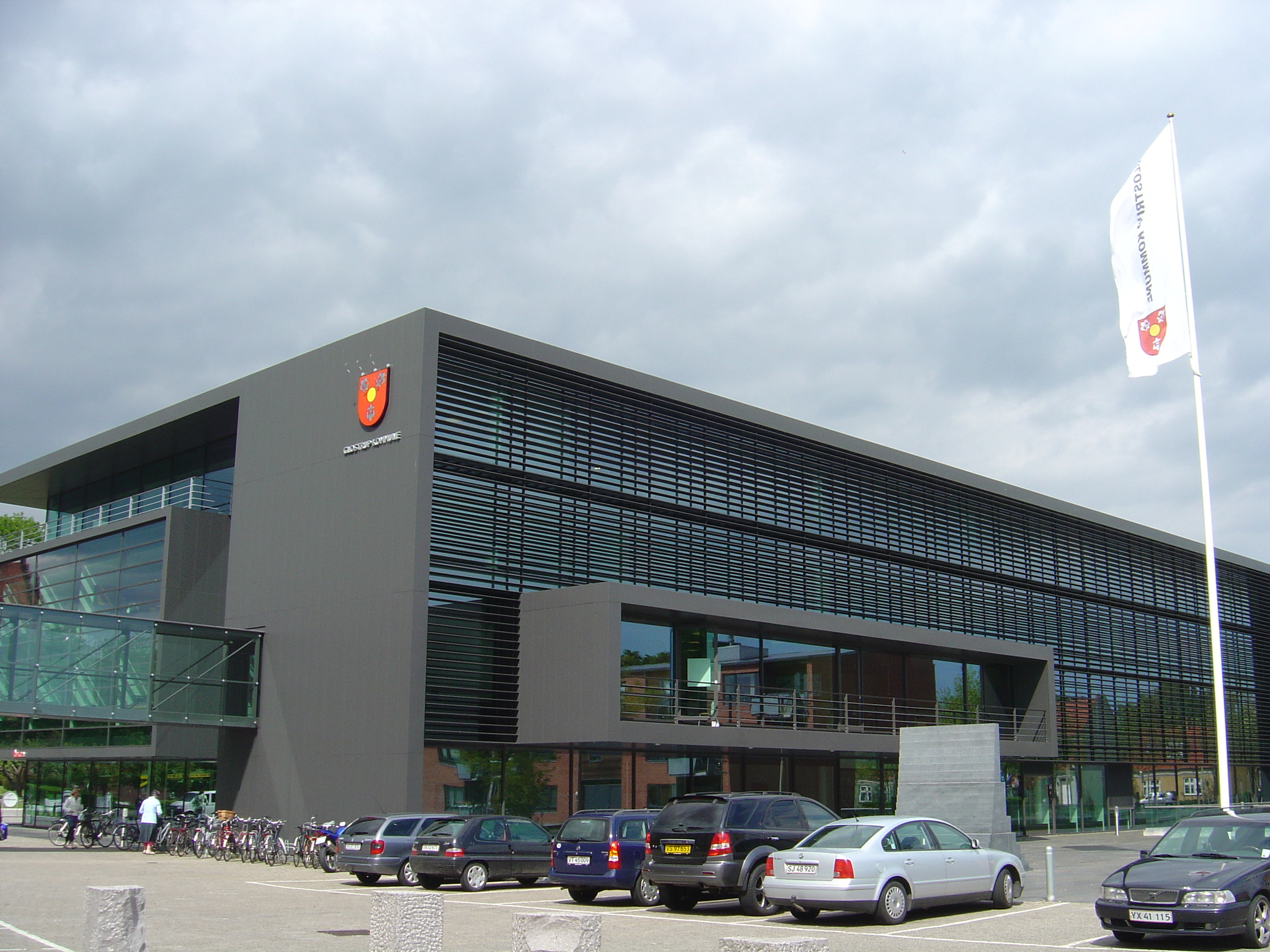 Glostrup Rådhus - One of the buildings for the town hall (east wing) in Glostrup, Copenhagen. Seen from south side, on the road called Rådhusparken.